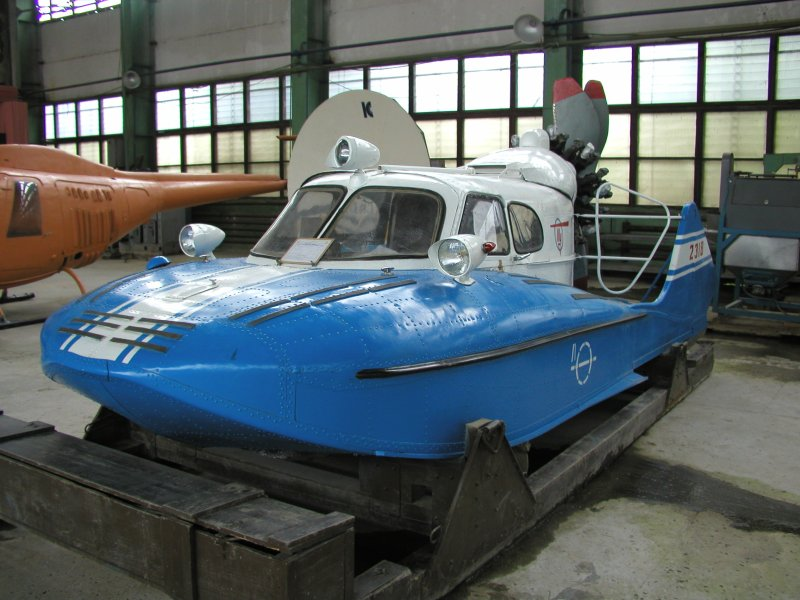 Tupolev A-3 aerosan (Dubove Helicopter Plant, Dubove, Transcarpathian region, Ukraine)